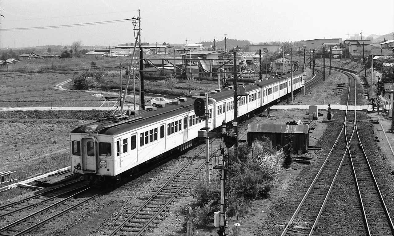 A Tobu 7800 series 4-car EMU approaching Ogose Station on the Tobu Ogose Line. The JNR (now JR East) Hachiko Line tracks are visible on the right.